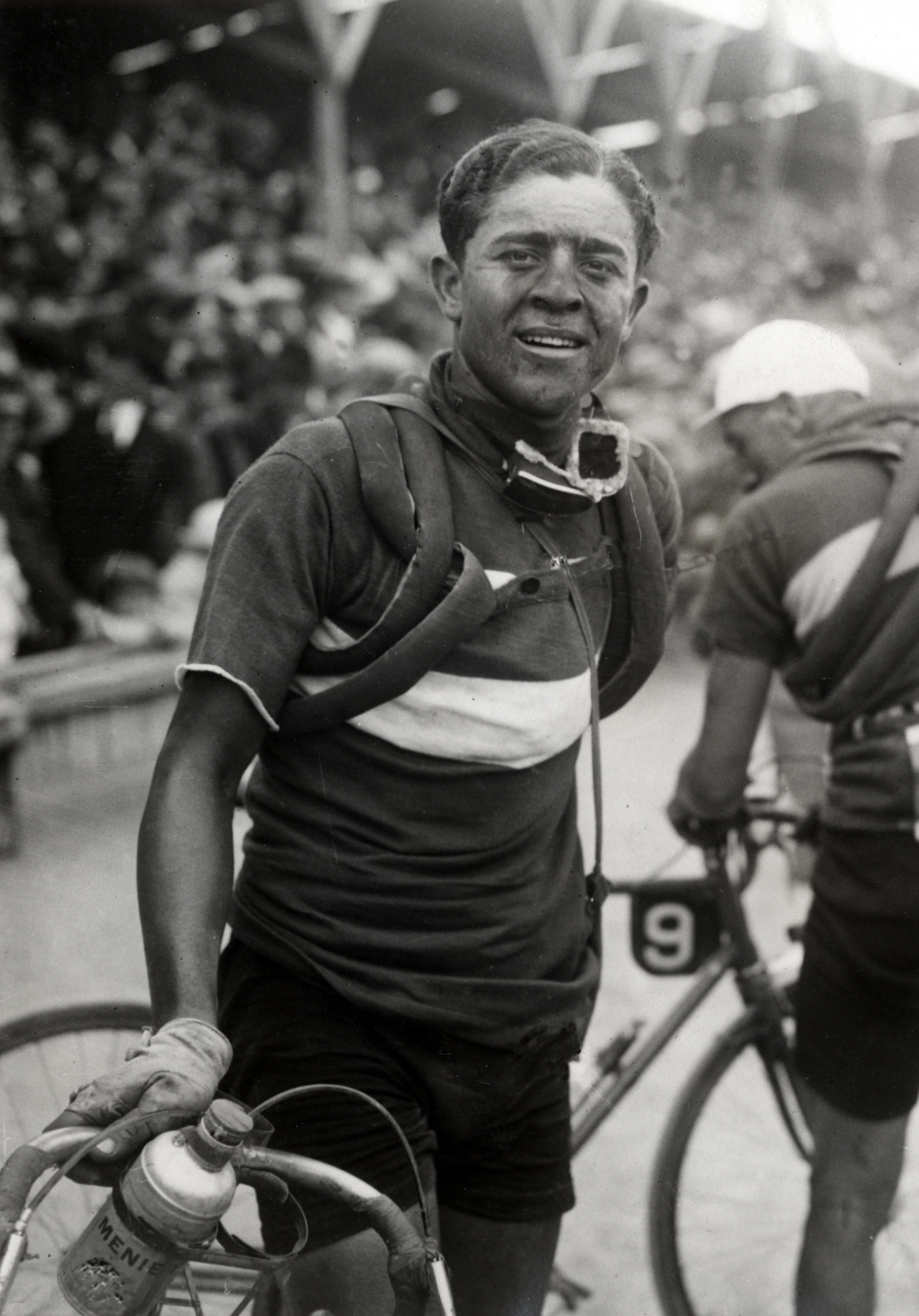 Italian racing cyclist Fabio Battesini, winner of the third stage Dinan-Brest (206 km) of the 1931 Tour de France, 3 July 1931.